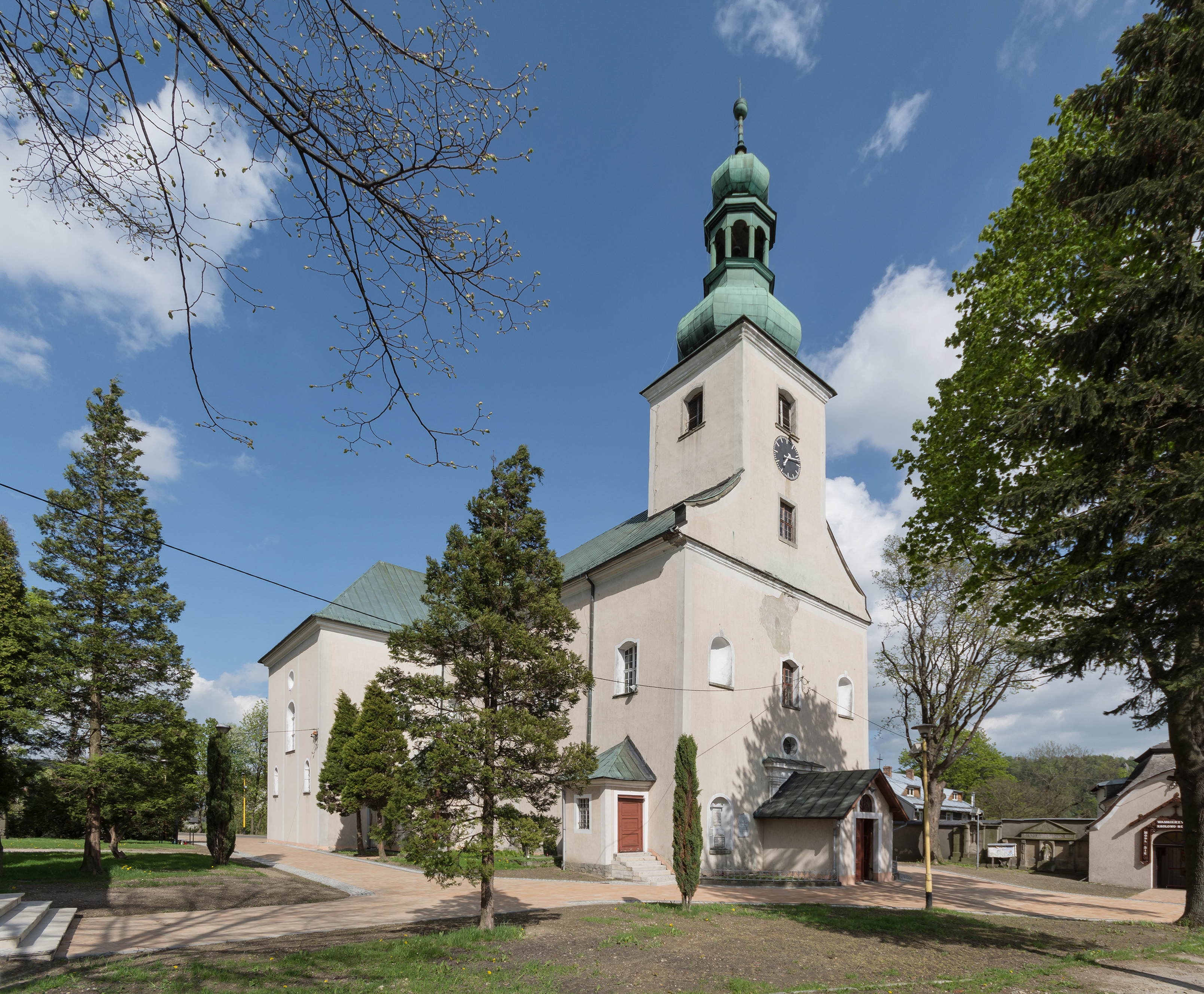 Saint John the Baptist church in Szczytna